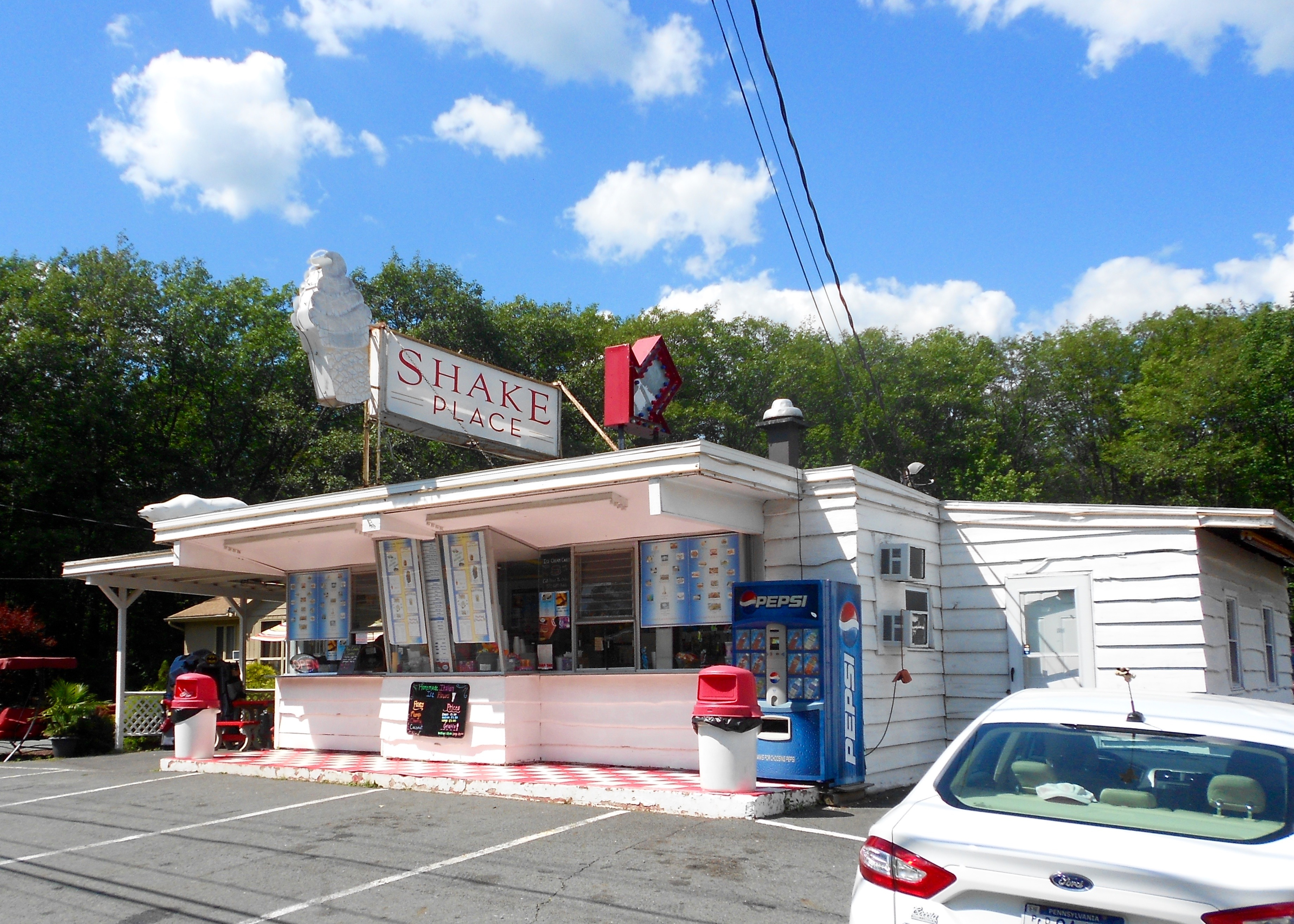 The Shake Place in Jefferson Township, Lackawanna County, Pennsylvania. Not just shakes but cones etc.